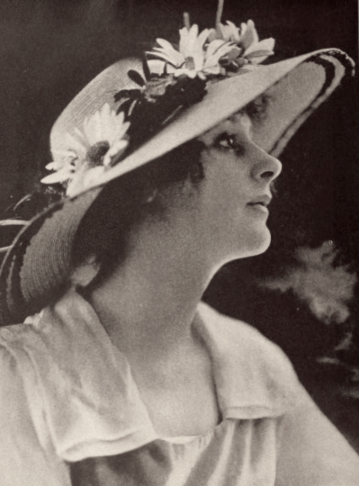 Nell Shipman portait